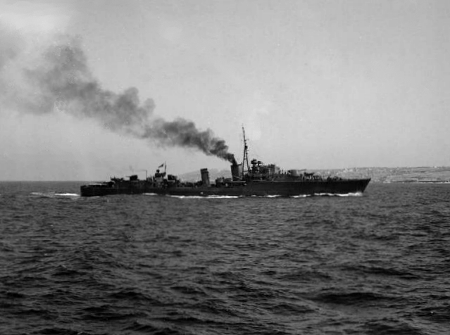 The British destroyer HMS Nubian (F36) returning to Malta after patrolling the coast of Tunis. She had been participating in operations by light naval forces based at Malta to patrol the Sicilian Narrows off the coast of Tunis and cut off the German Afrika Korps's escape route from North Africa.